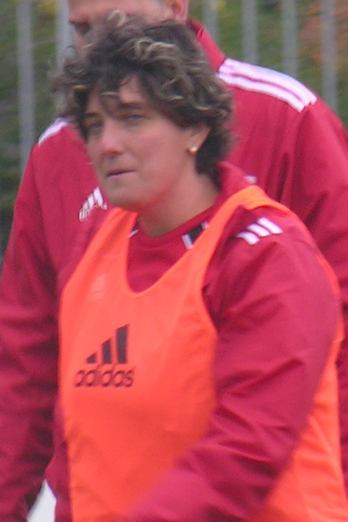 Andrea Lévay Hungarian international football player